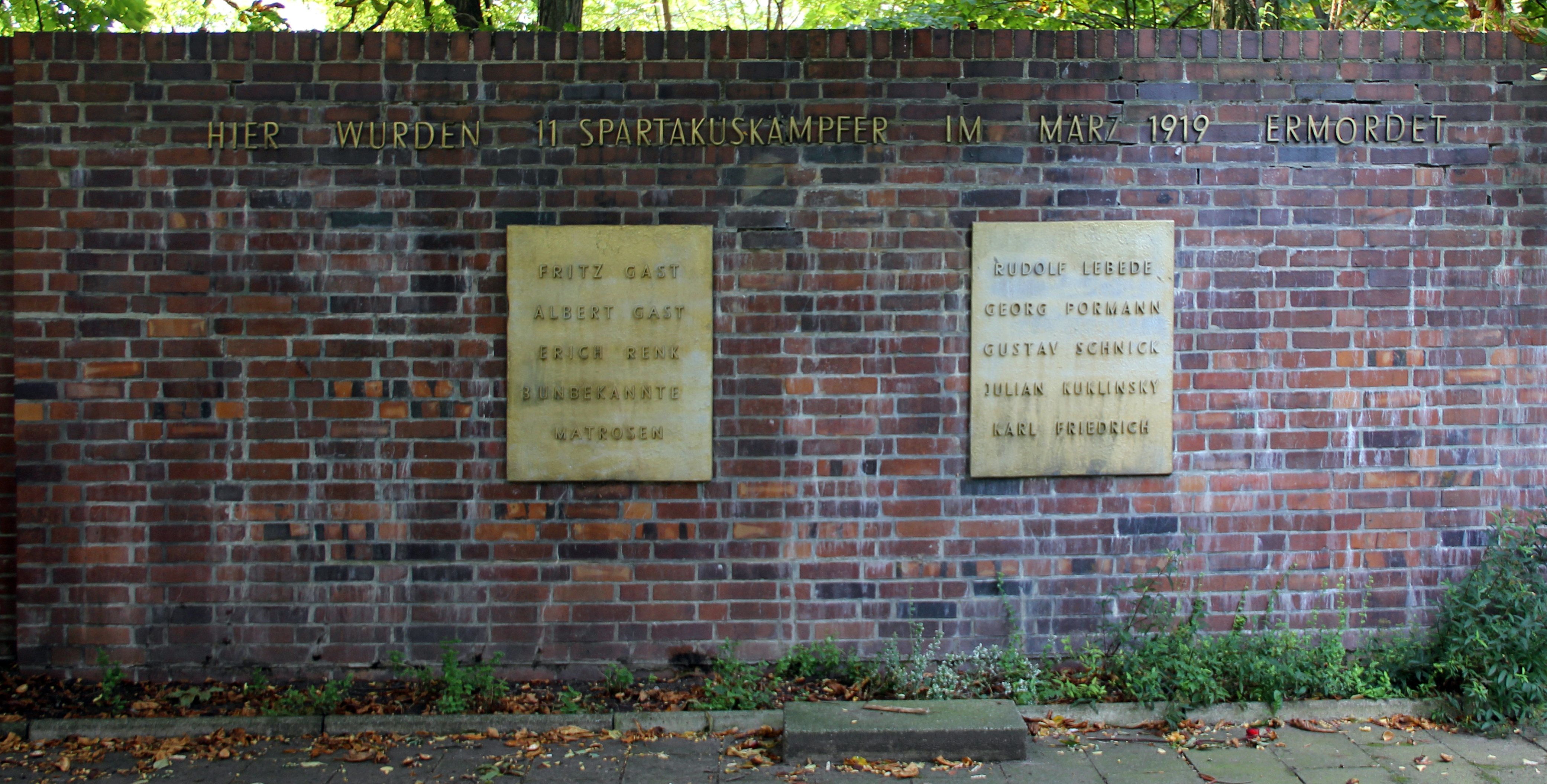 Memorial stone, Spartakusaufstand, Rathausstraße 10, Berlin-Lichtenberg, Germany